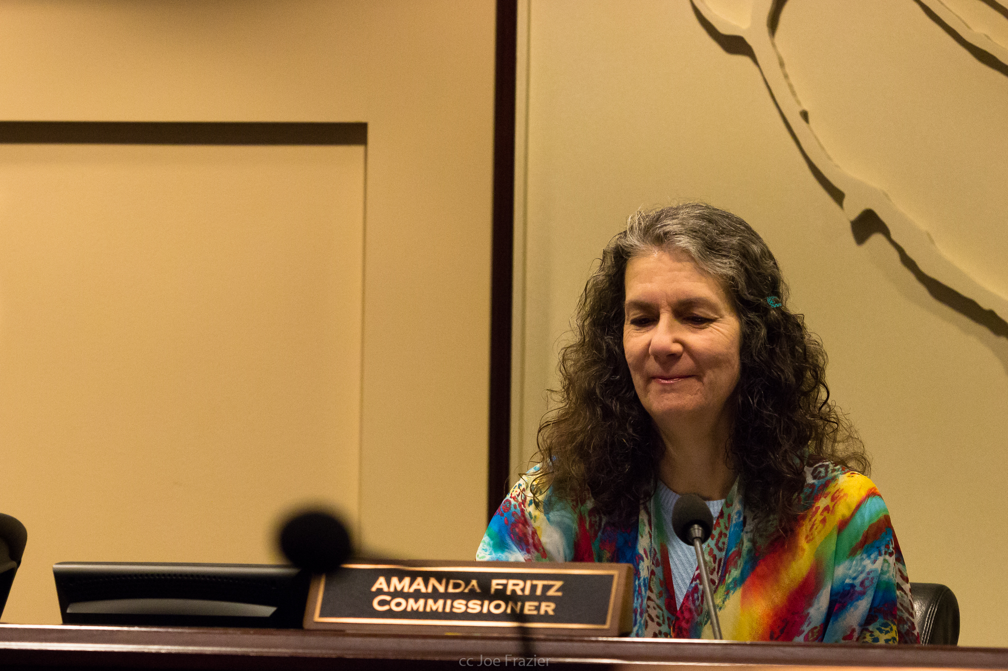 pdxcitycouncil02217-4935